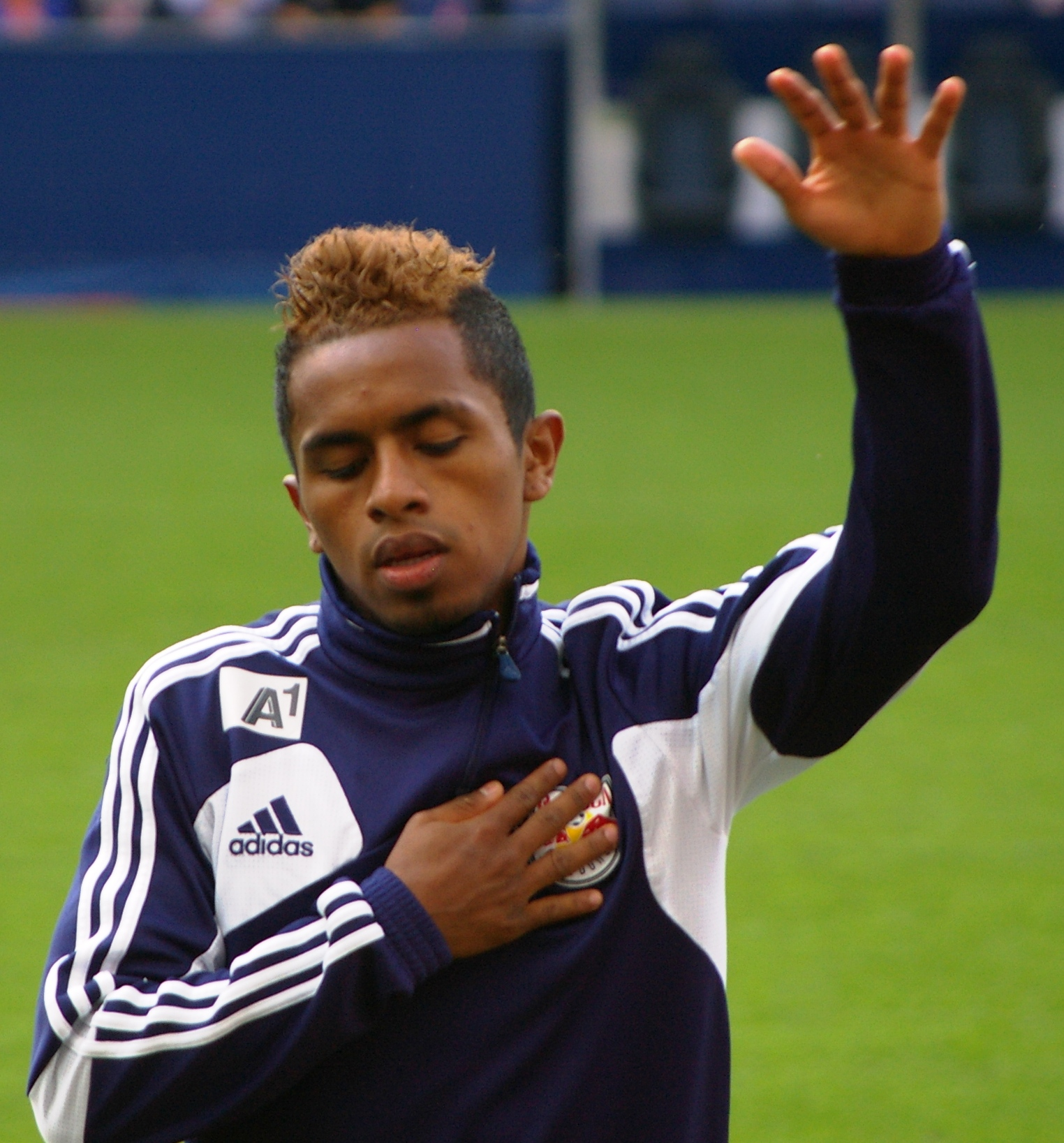 league match